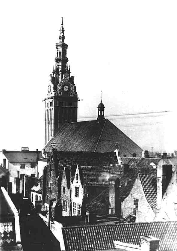 Tower of cathedral over roofs of Stare Miasto predominating.